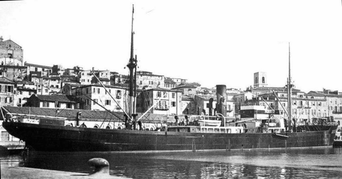 The SS Housatonic, originally named SS Pickhuben in 1890 and renamed SS Georgia in 1895. It was re-flagged as an American ship named SS Housatonic in 1915 and sunk by a German U-boat in 1917.